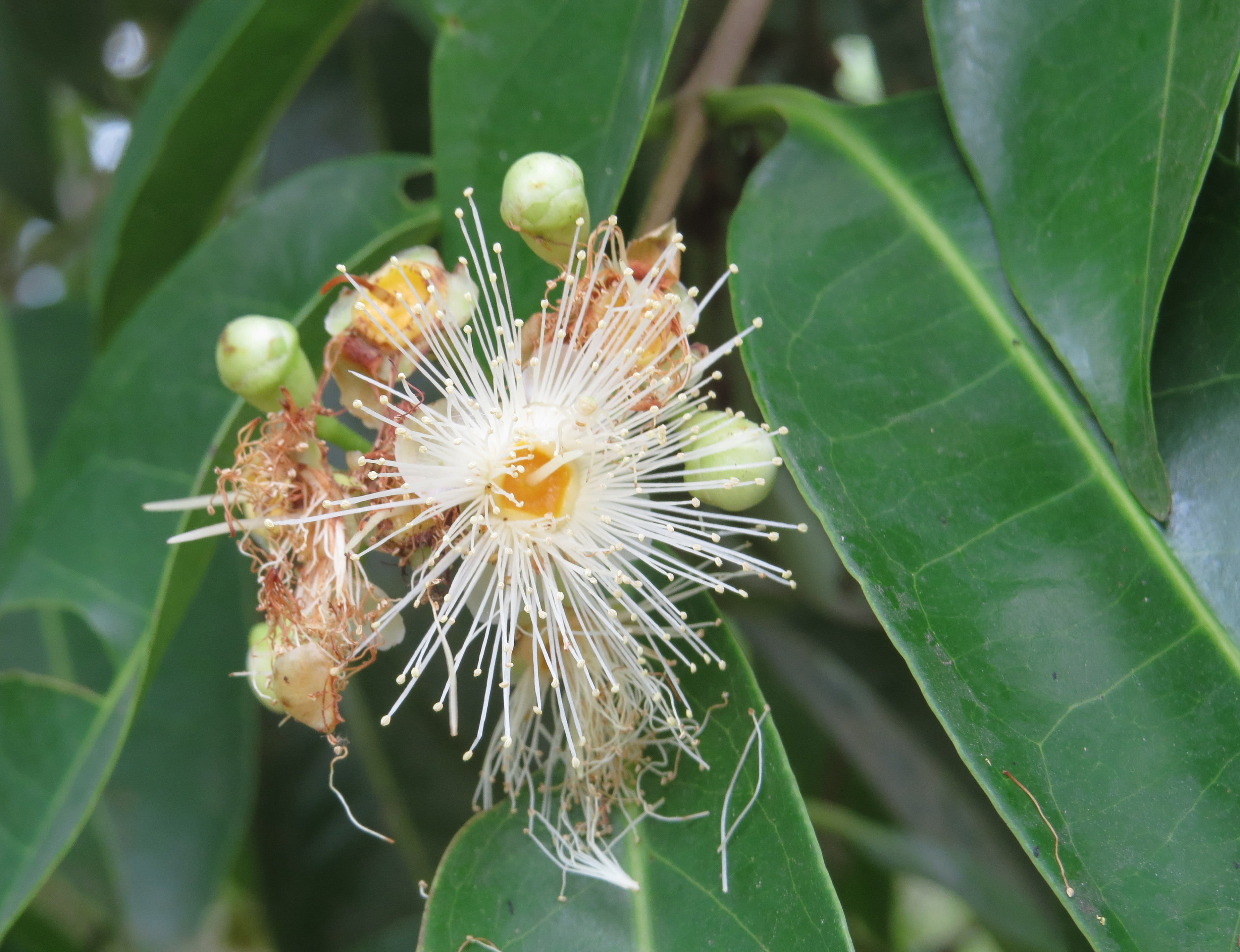 Syzygium hemisphericum